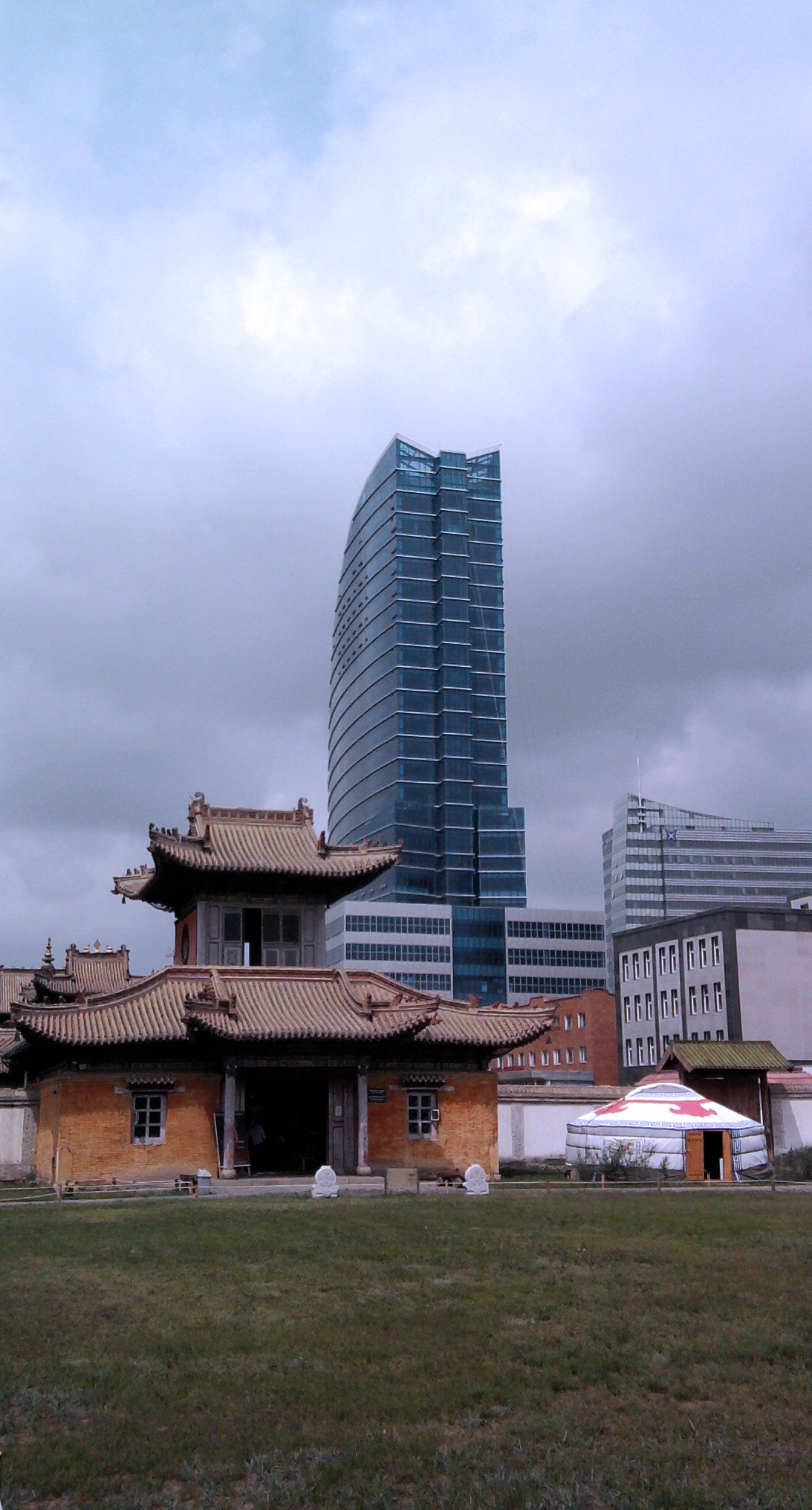 Generations of the Mongolian architecture: yurt, temple and skyscraper Монгол: ༄༅།།ཨུ་ལ་གན་པག་ཏུྼ་ཁོ་ཐ།། ༄༅།།གང་ཐུ་ཡཱ་འི་ཨོ་རོ་གུ་ལ་གྶྣ་ཇི་རུག།། Монгол: ᠣᠯᠠᠭᠠᠨᠪᠠᠭᠠᠲᠣᠷ ᠬᠣᠲᠠ᠃ ᠭᠠᠩᠲᠣᠶᠠᠭ᠎ᠠ ᠢᠢᠨ ᠣᠷᠣᠭᠤᠯᠣᠭᠰᠠᠨ ᠵᠢᠷᠣᠭ᠃